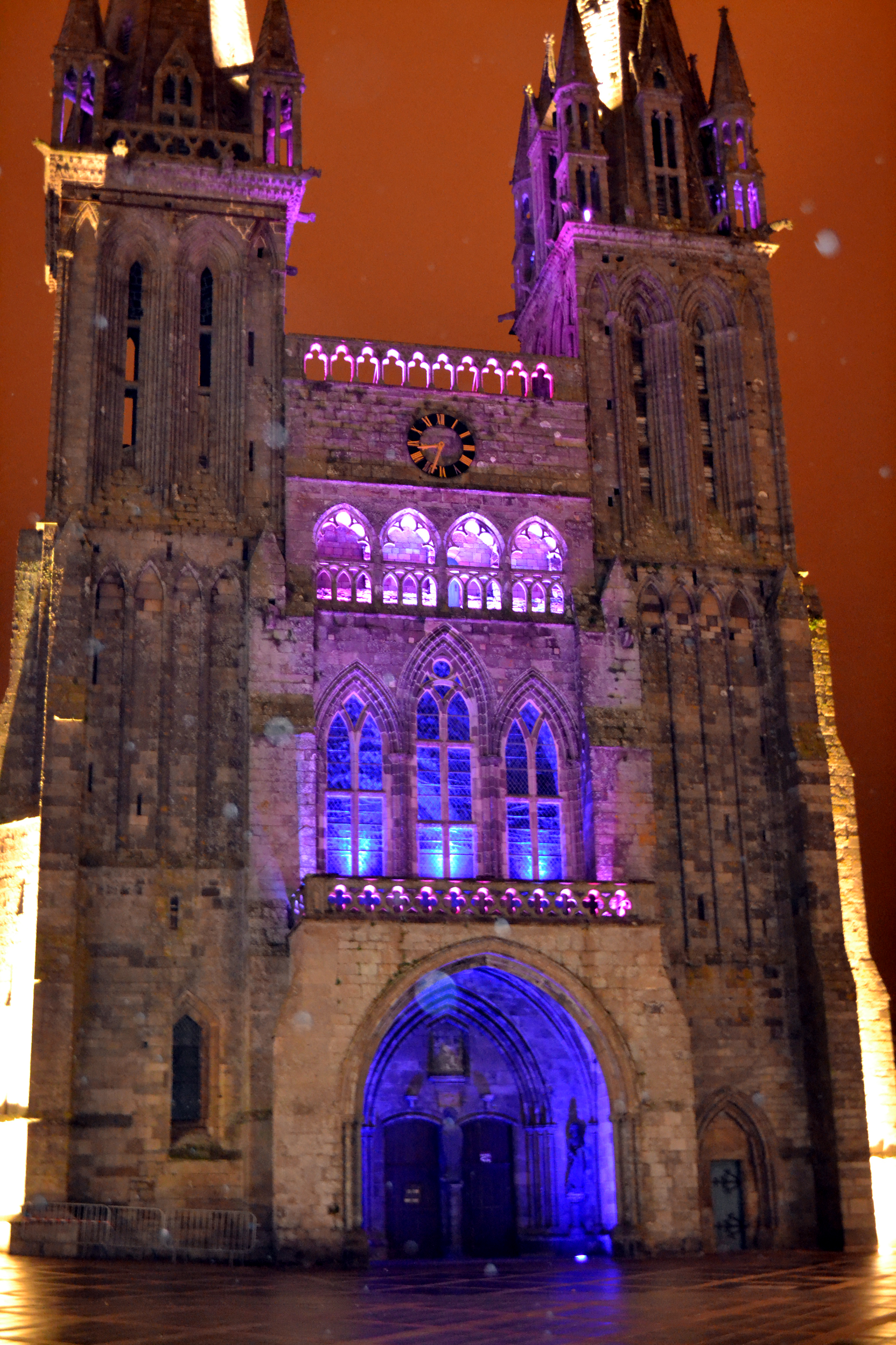 Saint Pol Aurelian cathedral, Kastell Paol, Finistere, Brittany